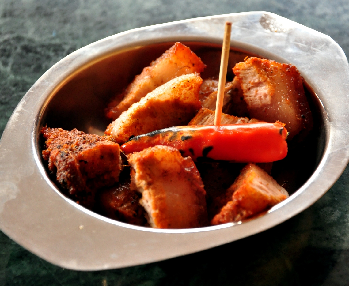 Nepali style Sekuwa made using Wild Boar Meat.